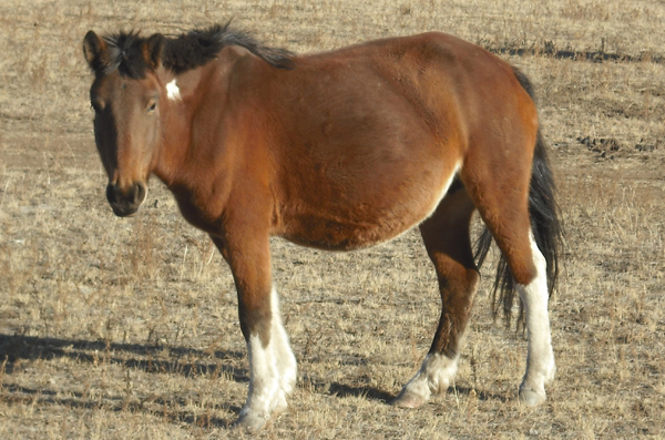 Mongolian horse